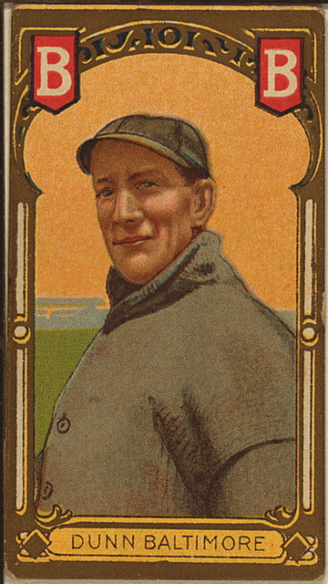 T205 John Dunn. This image is in the public domain.